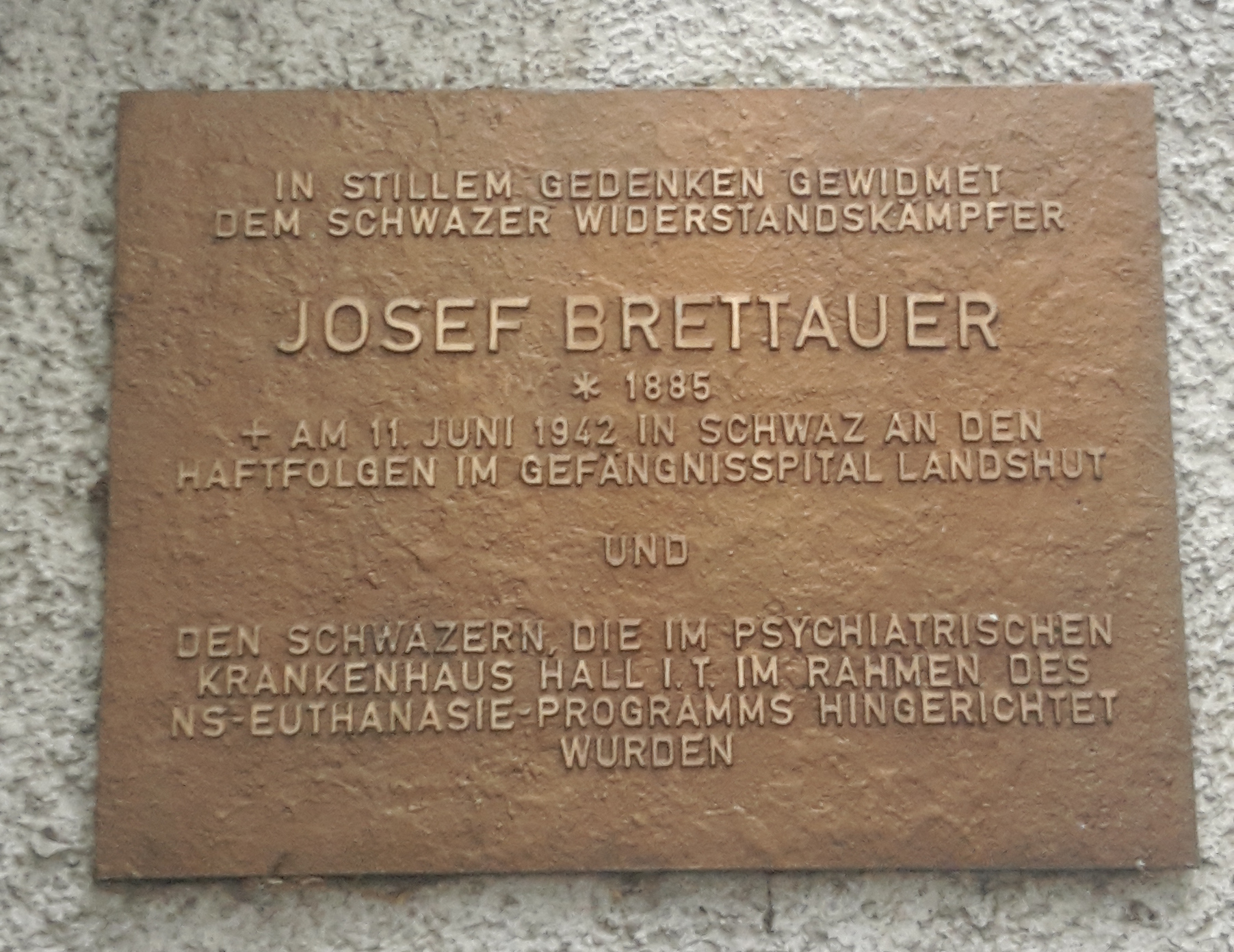 Commemoration sign in Schwaz for the Resistance fighter Josef Brettauer and the victims of euthanasia in the psychiatric hospital in Hall